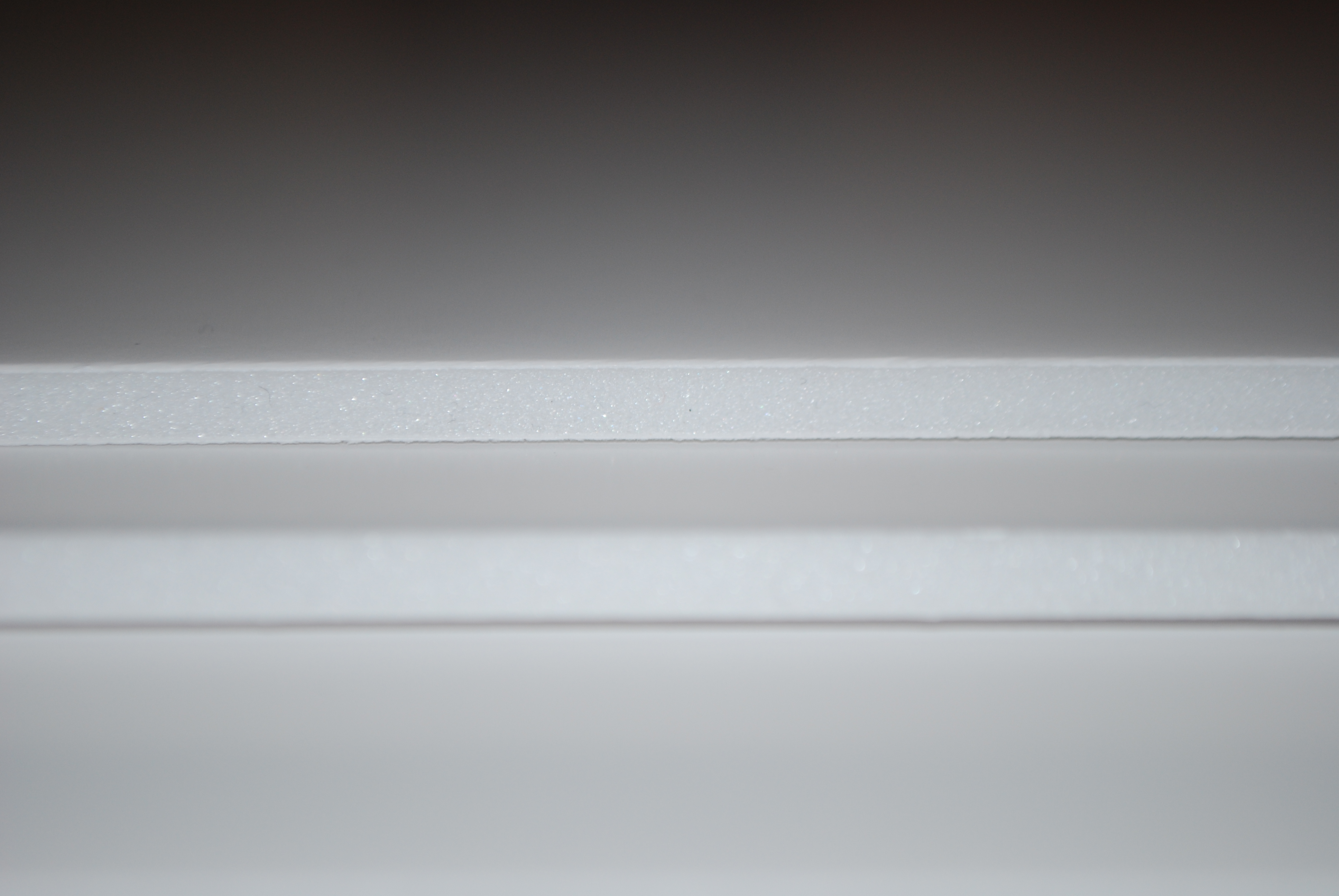 Foamboard